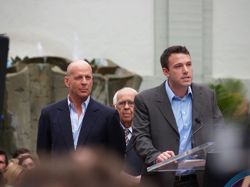 Ben Affleck speaks at a ceremony where Bruce Willis was presented with his star on The Hollywood walk of Fame.